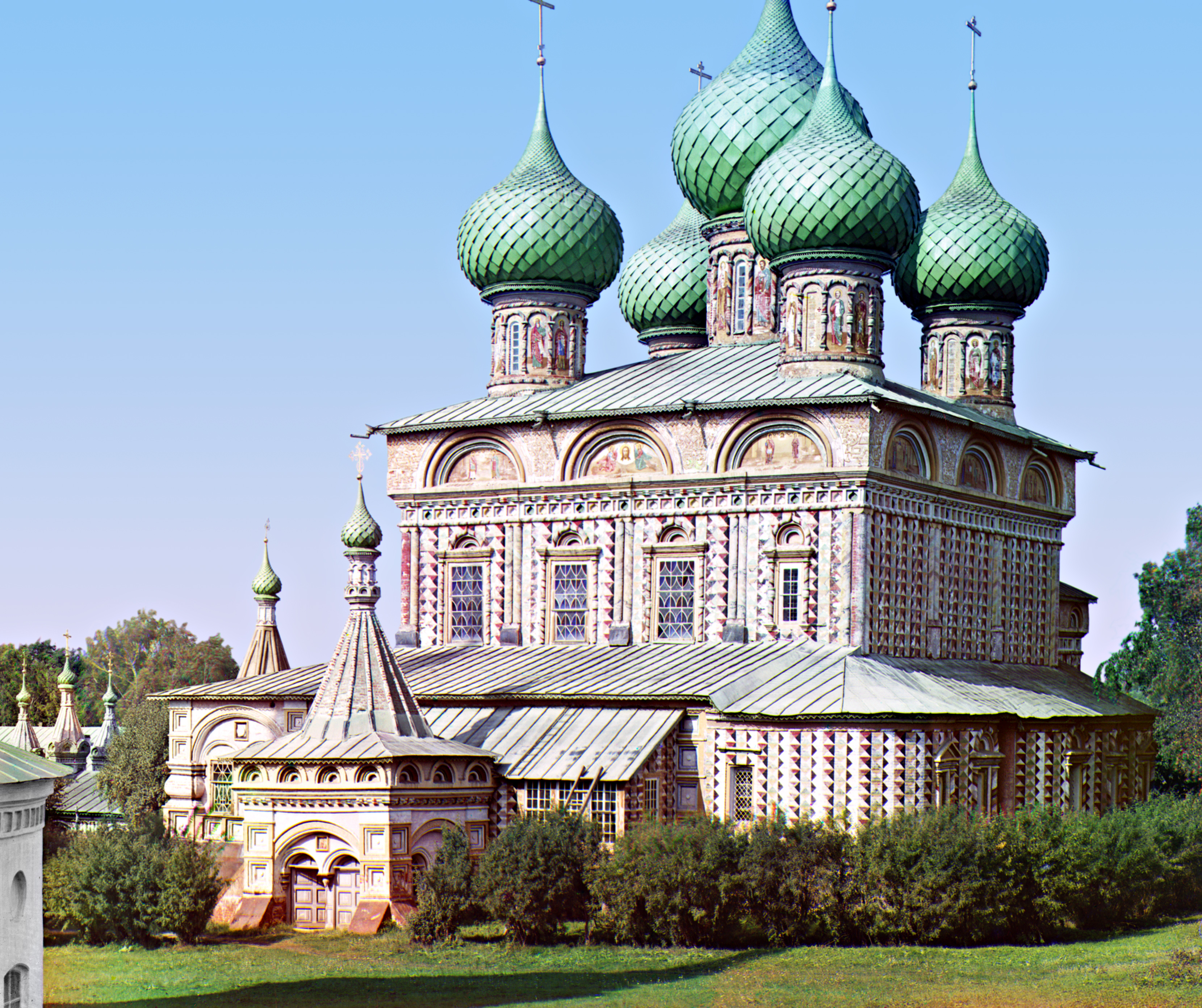 Church of the Resurrection in the Grove (from the other side). Kostroma. For a modern view of the same church click here.